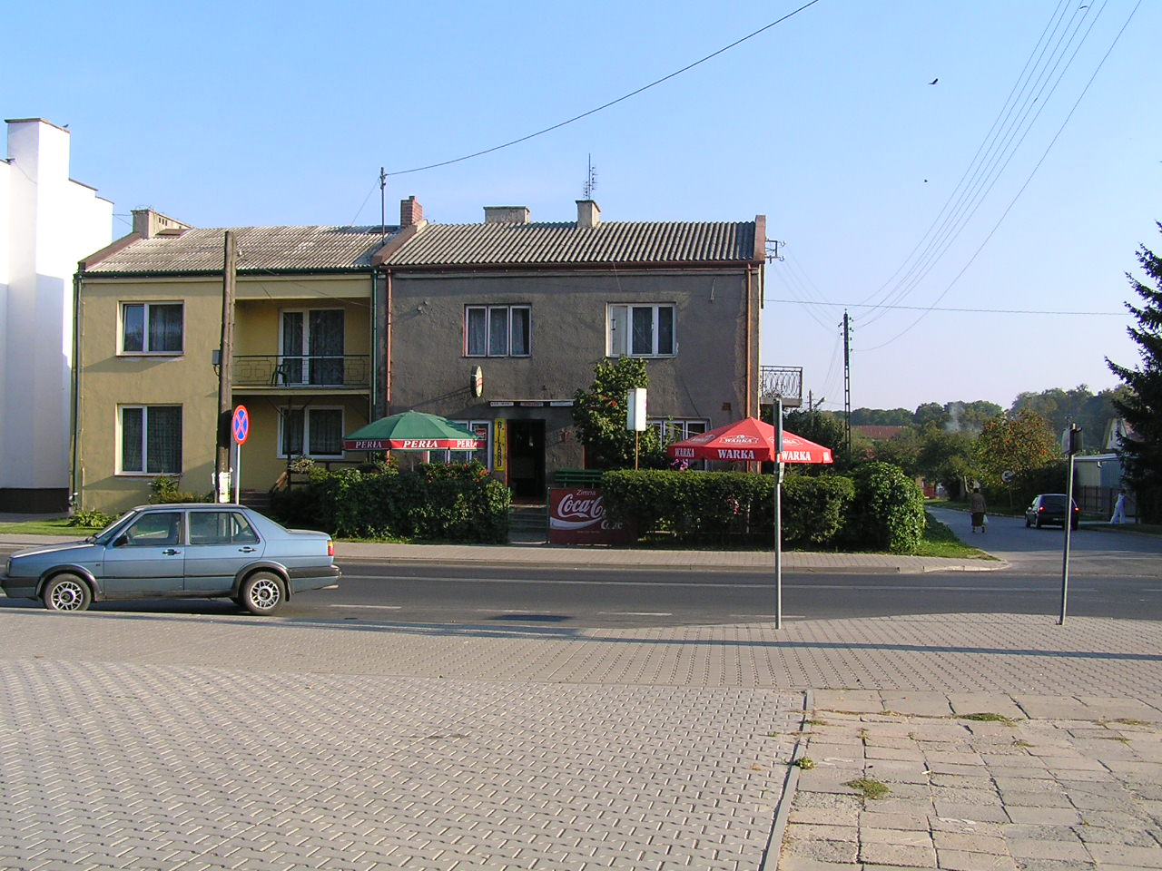 autor: Yarek shalom 08:42, 11 October 2006 (UTC)yarek shalom